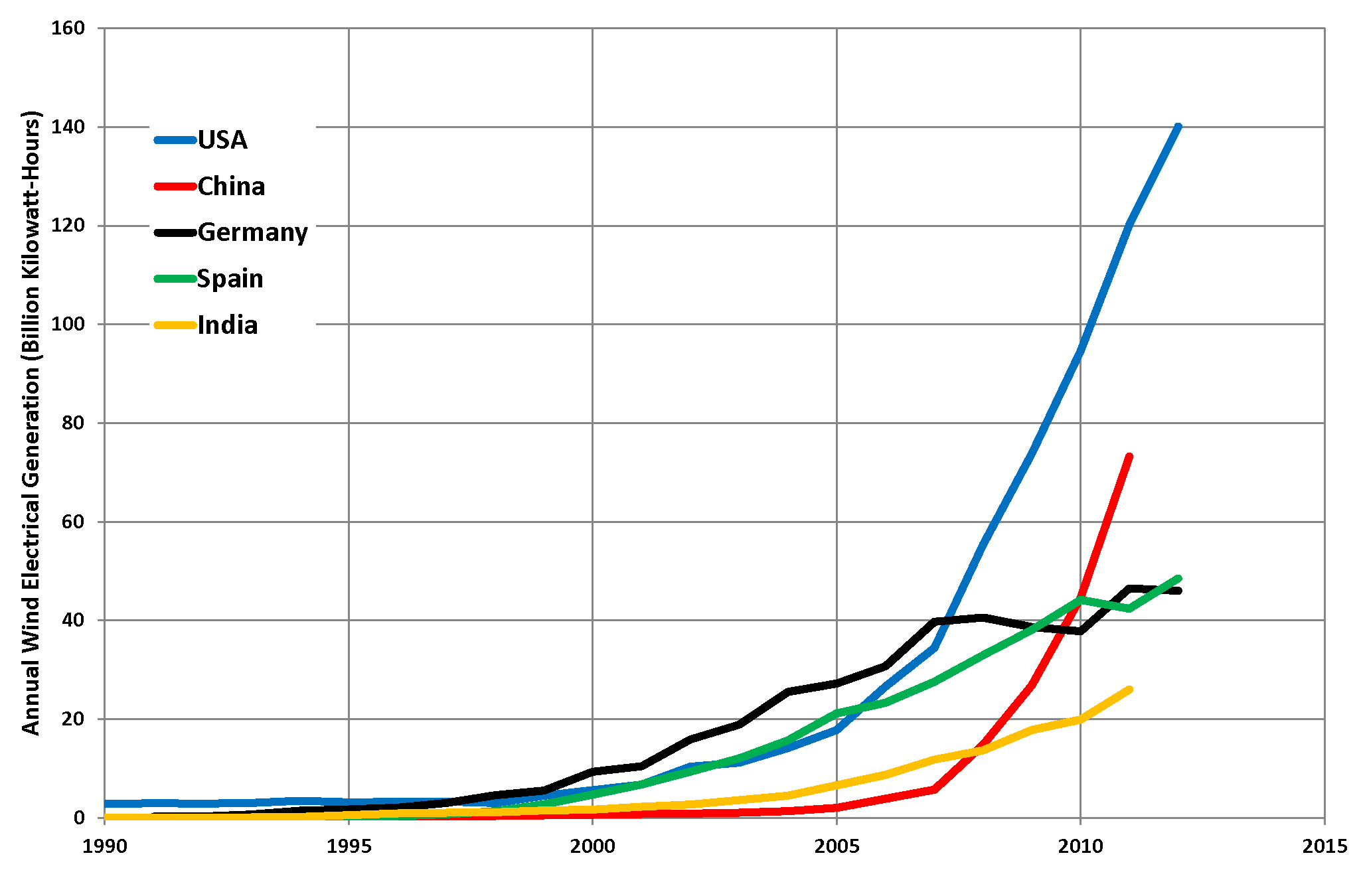 Trends in the top five countries generating electricity from wind, 1980-2012 (US EIA)